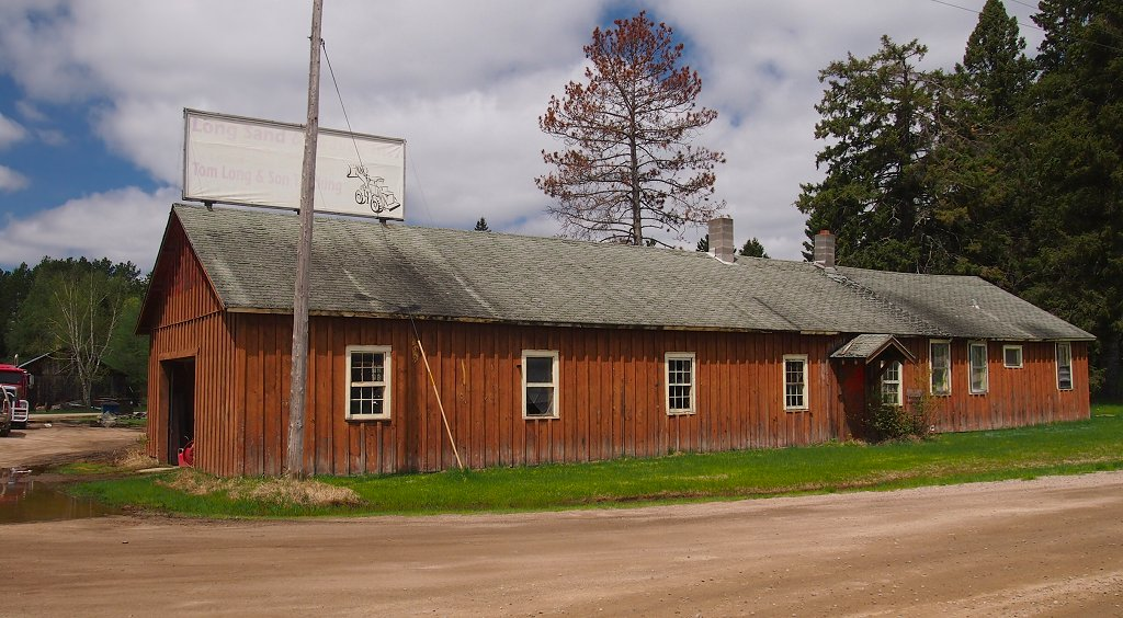 Civilian Conservation Corps Camp S-52, Leiding Township, Minnesota, USA. Viewed from the southeast.